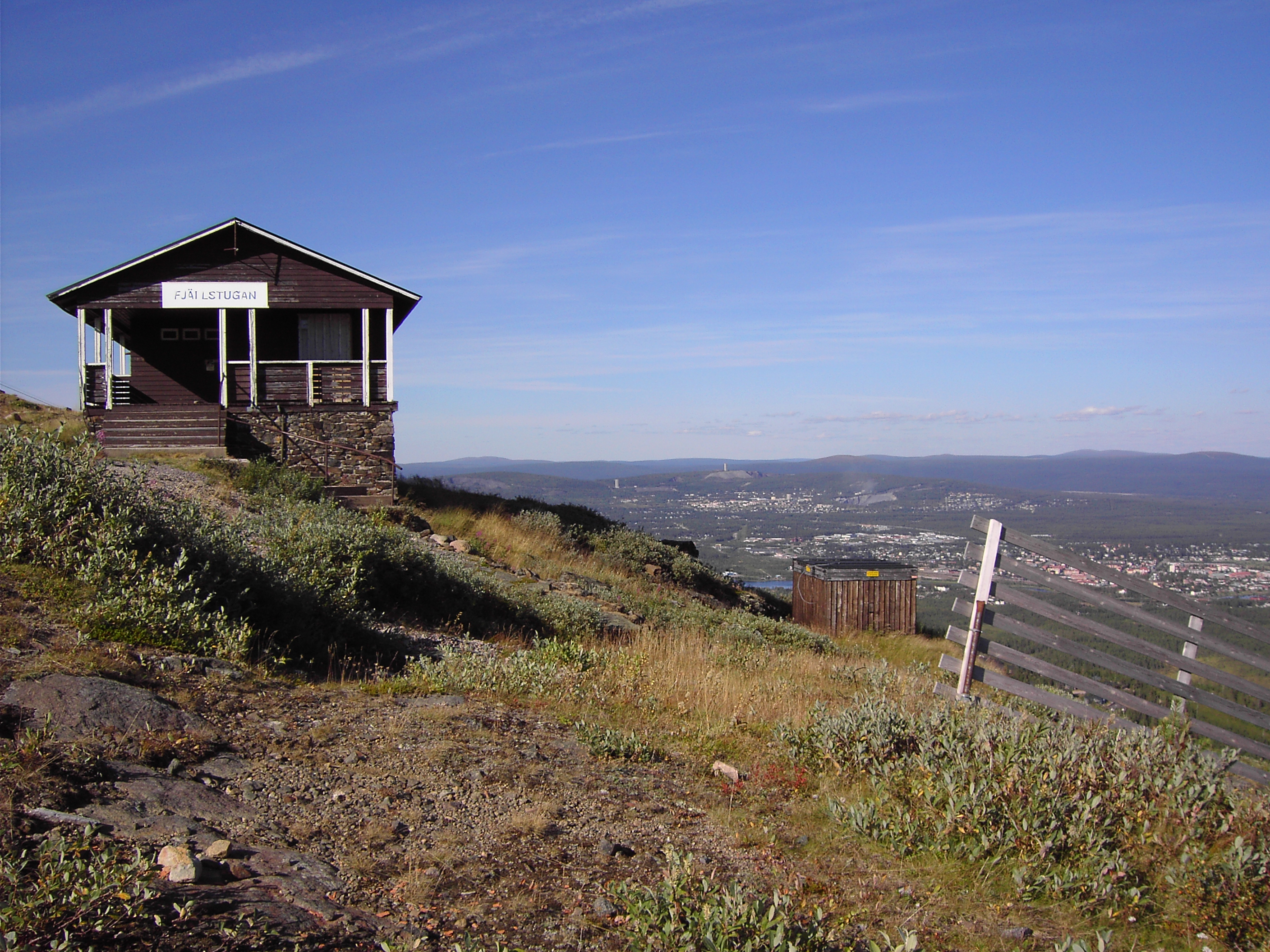 Cabin on top of Dundret mountain, Gällivare, Sweden